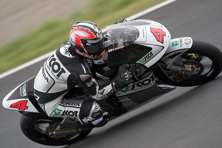 Hiroshi Aoyama at 2009 Motegi